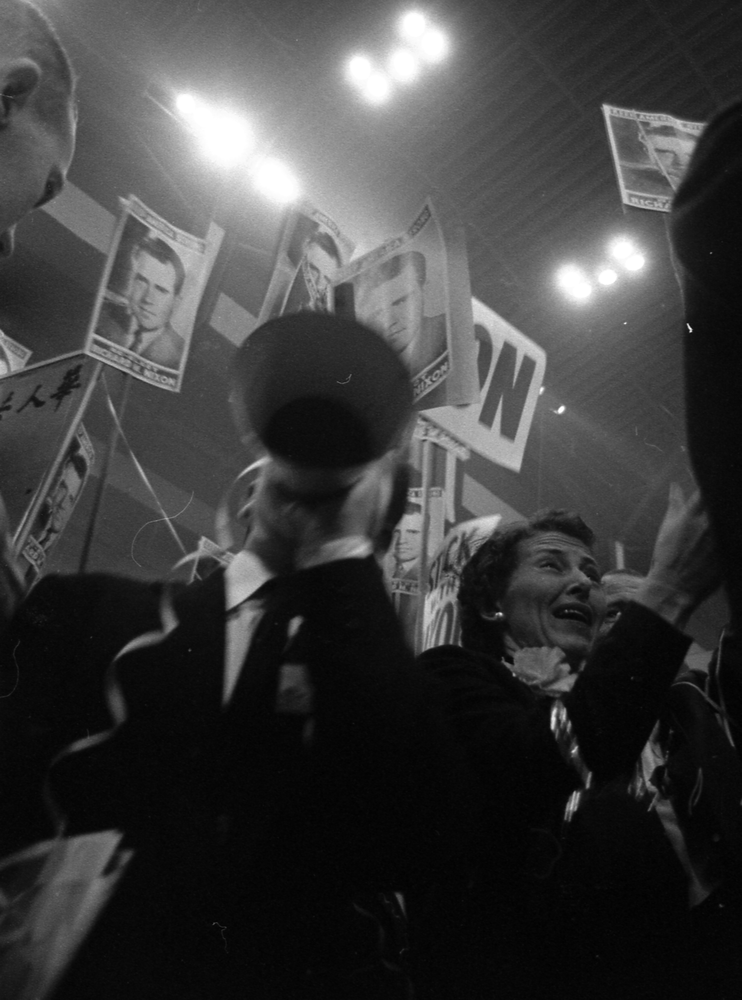 Attendees at the 1956 Republican National Convention, San Francisco, California. Photograph shows convention attendees applauding, speaking in a megaphone, and holding Nixon signs.